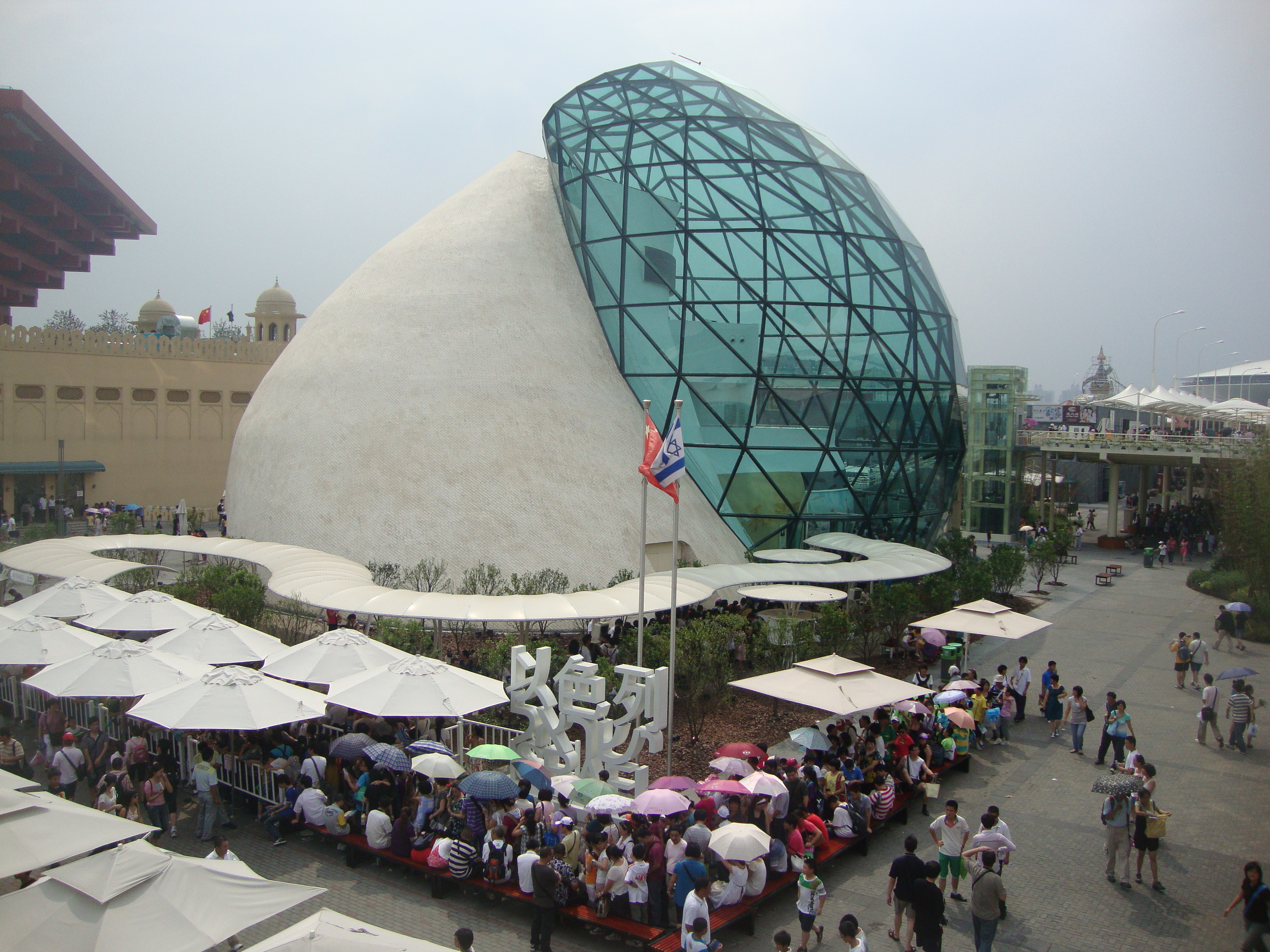 Israel Pavilion in Expo 2010 in Shanghai.